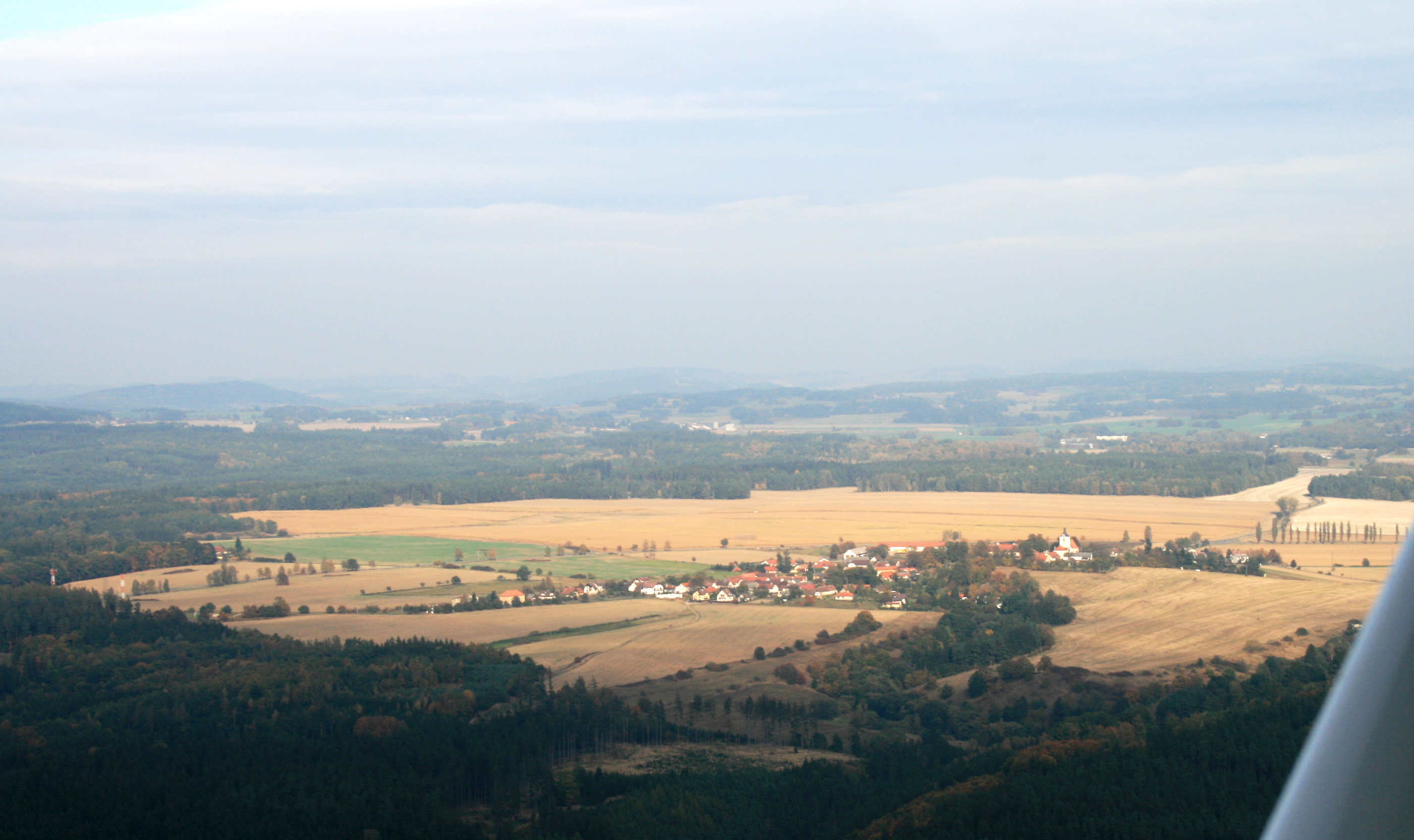 Air photo of village Kostelec nad Vltavou in Písek district, south Bohemia, Czech Republic